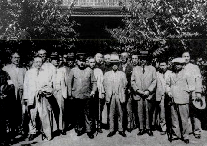 Japanese spy Kenji Doihara (middle, wearing uniform of japanese military) together with several japanese and chinese officials in Mukden (Shenyang)